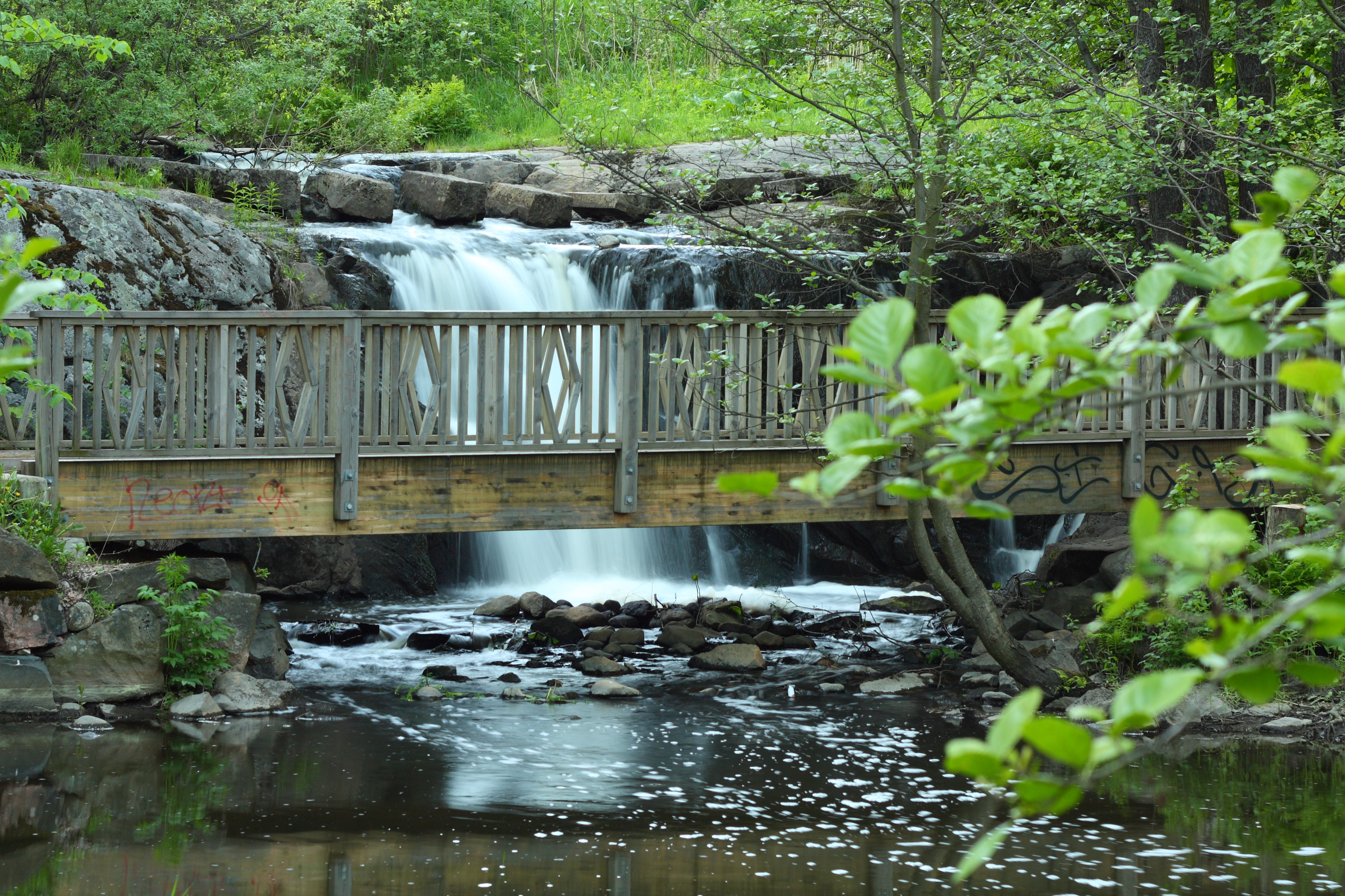 A small waterfall in Mätäjoki river in Strömberg park, Pitäjänmäki, Helsinki.